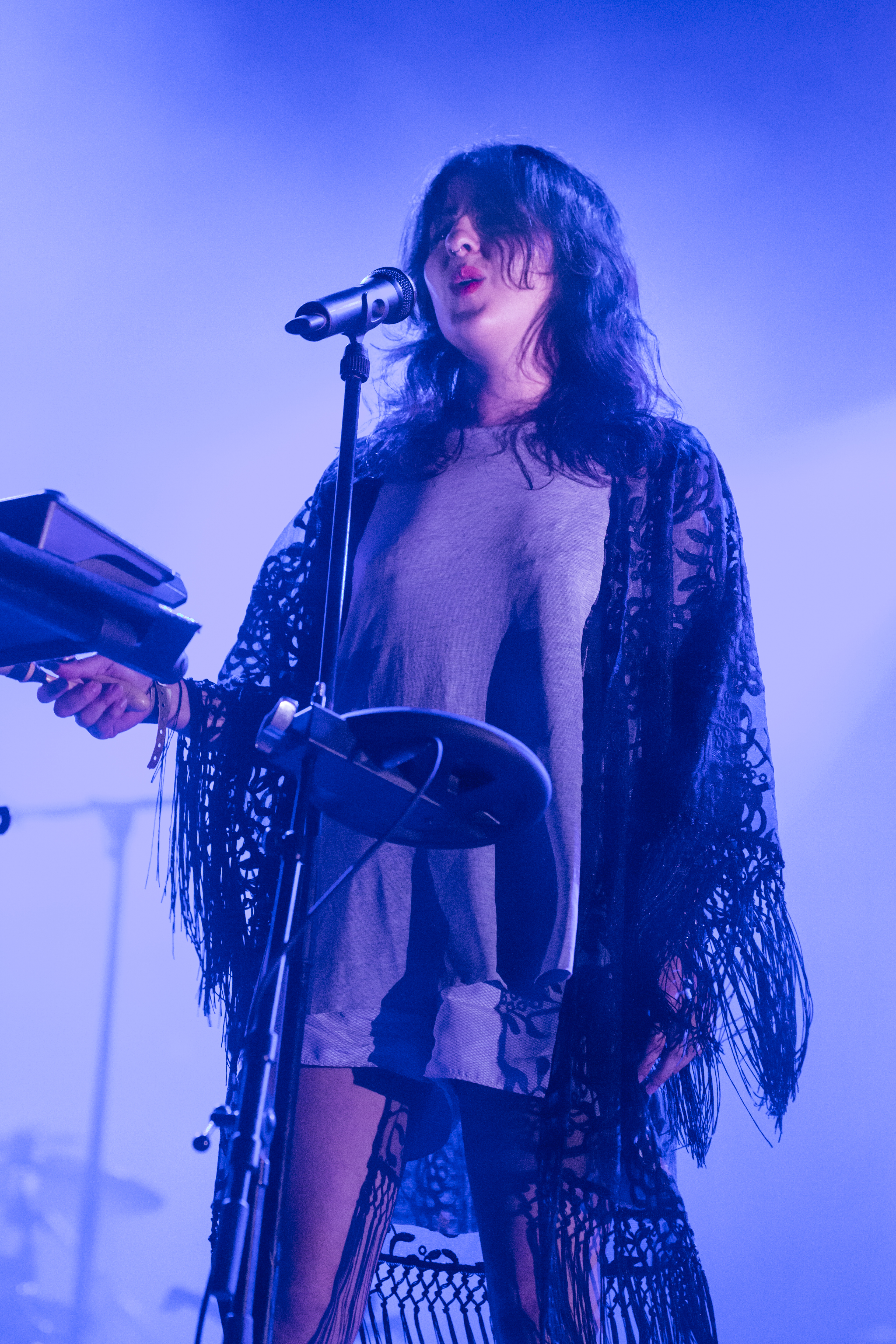 Lilly Wood & The Prick at "le weekend des curiosités 2015", Ramonville, France